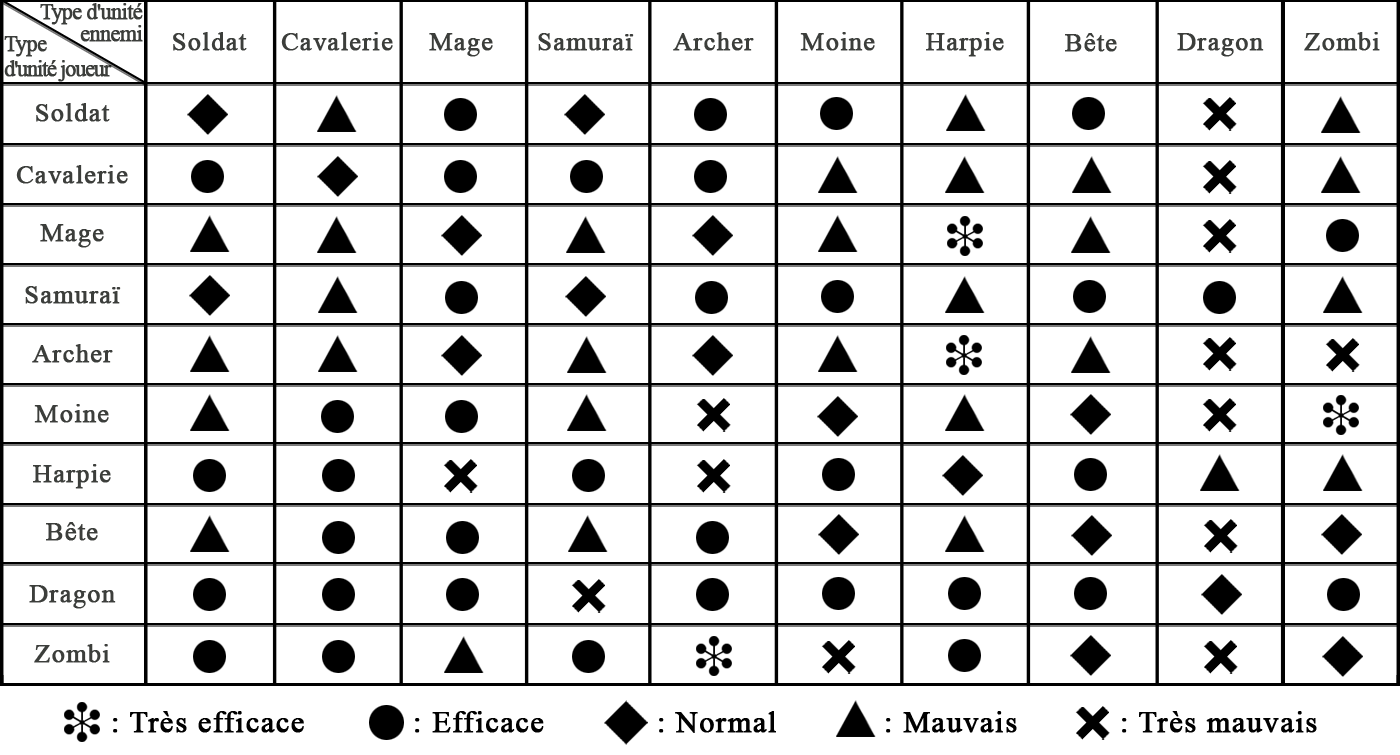 Table of the effectiveness of troops in Dragon Force.